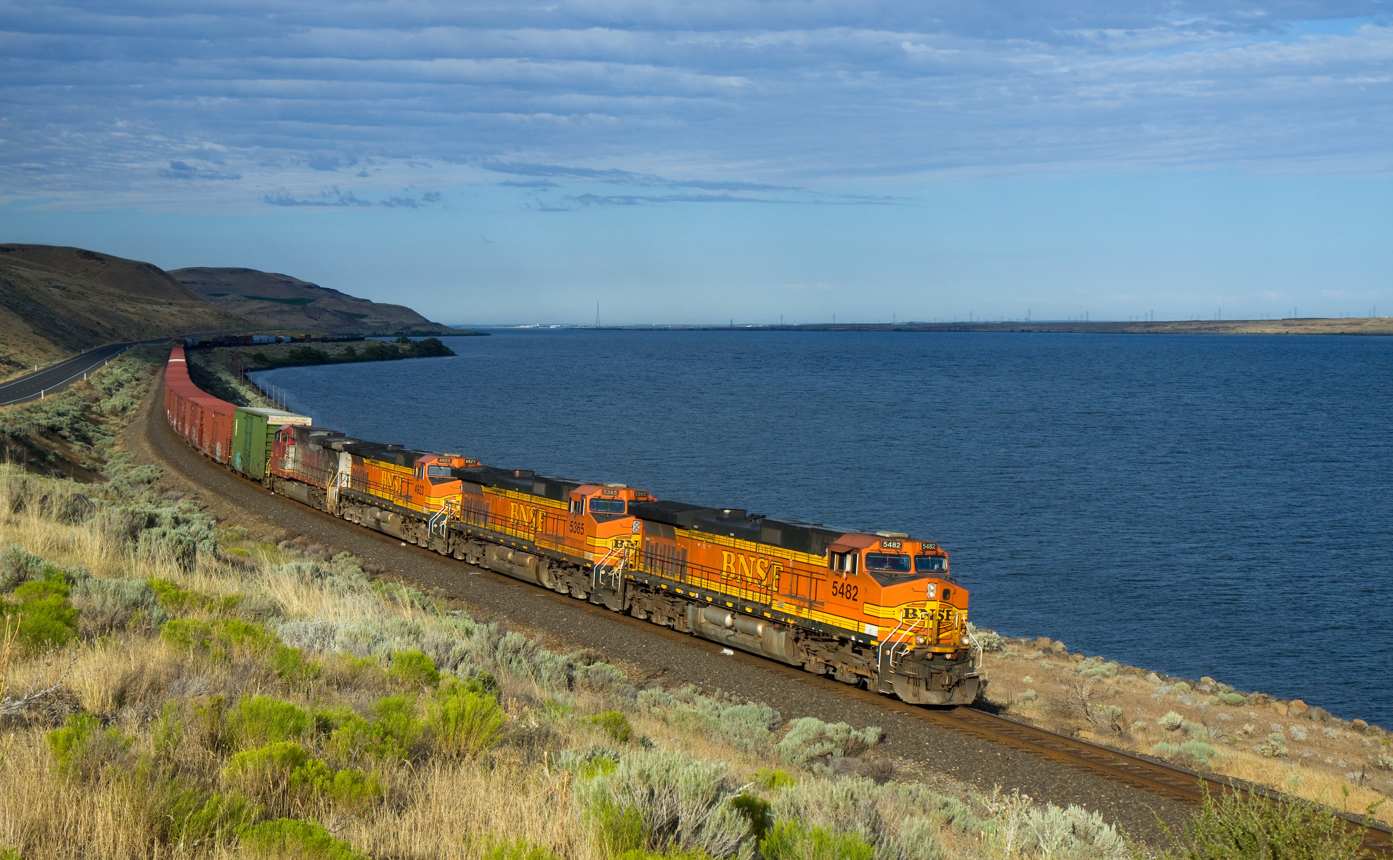 Mixed BNSF freight train between Kennewick and Wishram, WA. The locomotives are probably four GE Dash-9 C44-9W (not entirely sure about the last one). We were very lucky, as the sun just got out before the train passed by...